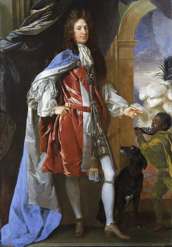 Charles Seymour, 6th Duke of Somerset, KG, (1662–1748), of Petworth House, with a black pageboy. On his left leg he displays The Garter. Collection of National Trust, Petworth House, Sussex, accepted by HM Treasury, 1956, in lieu of death duties on the estate of Charles Henry Wyndham, 3rd Lord Leconfield, of Petworth House; transferred to the National Trust